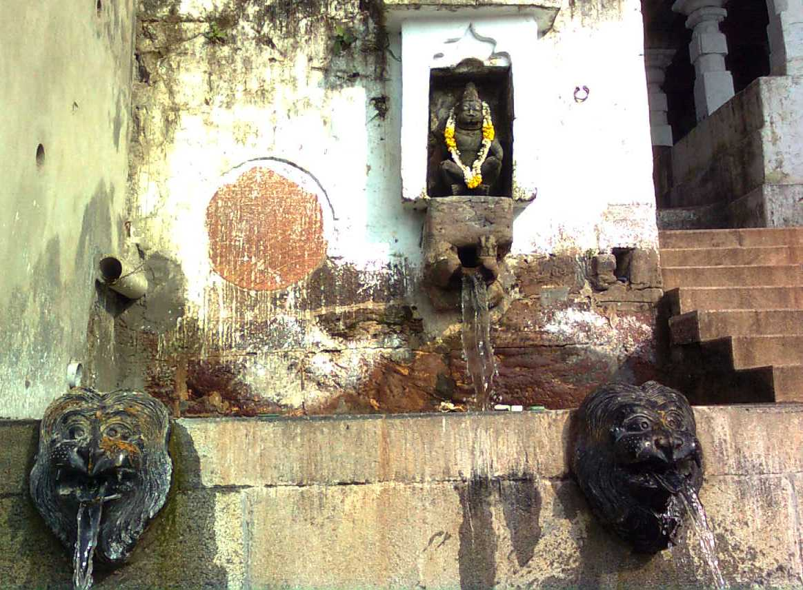 Holy water jet (Gangadhara) in Simhachalam